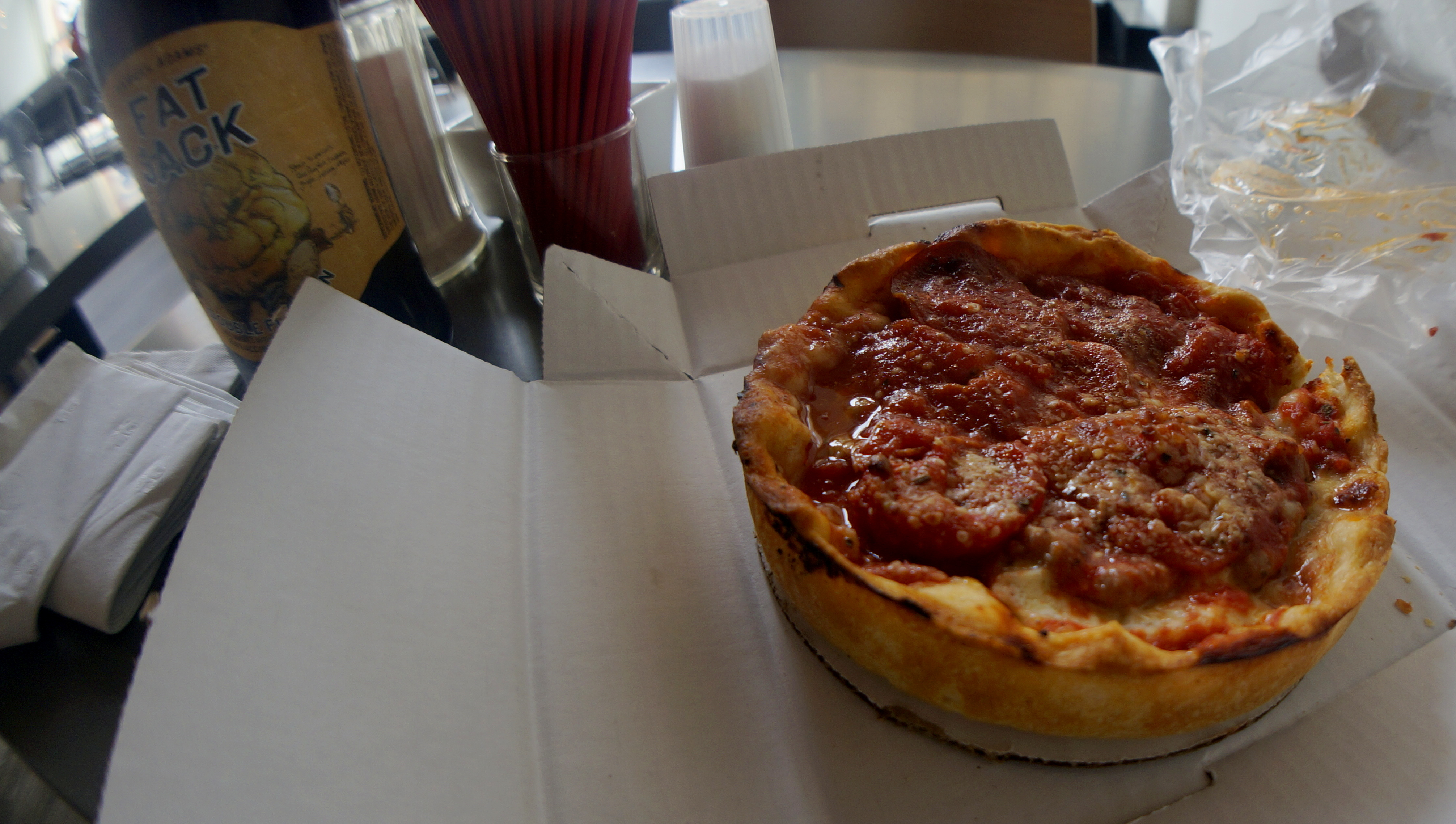 Personal Pan deep dish Pizza from Chicago pizza restaurant "Lou Malnati's.